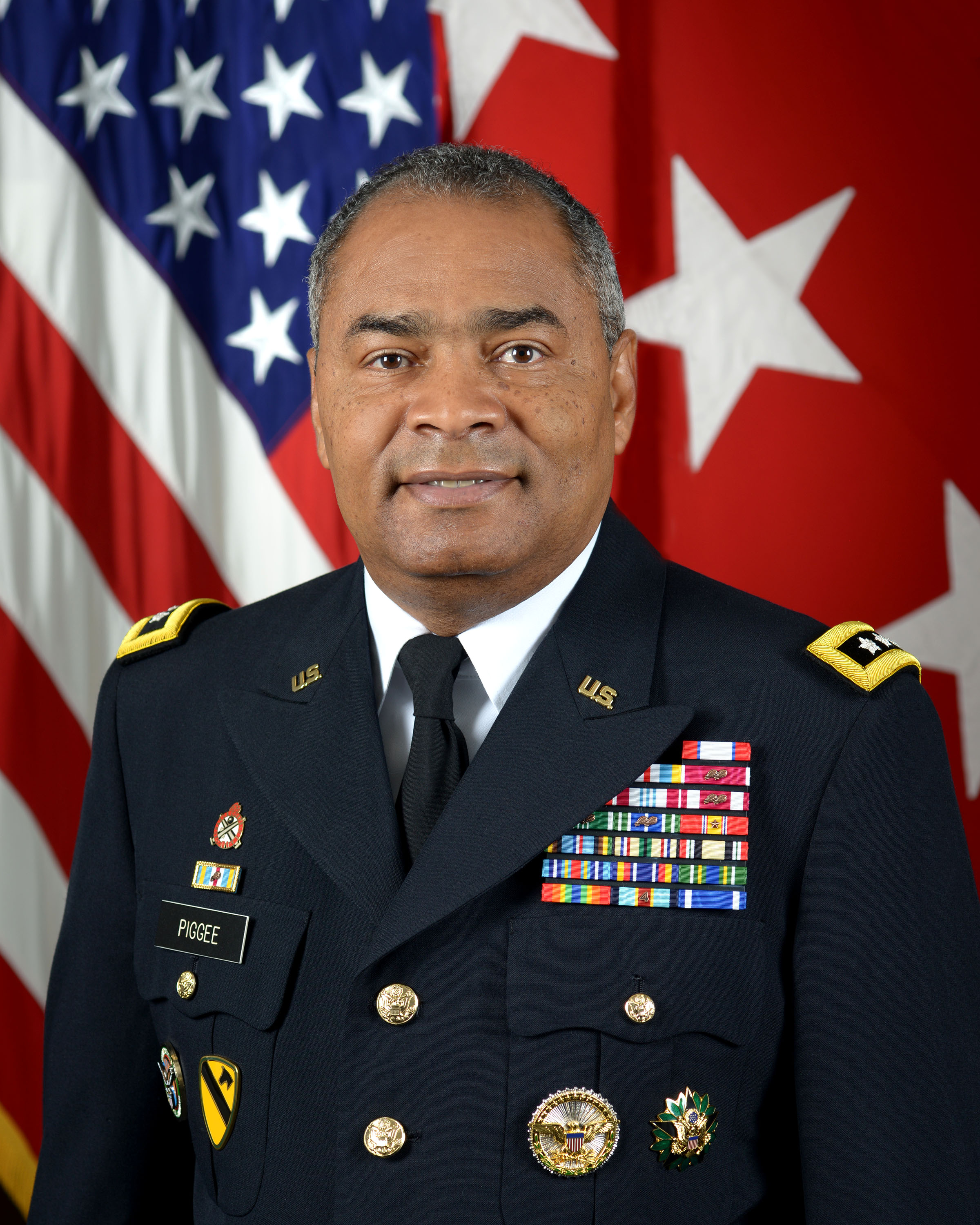 Lt. Gen. Aundre F. Piggee, Deputy Chief of Staff of G-4 (Logistics), poses for a command portrait in the Army portrait studio at the Pentagon in Arlington, VA, Sept. 22, 2016. (U.S. Army photo by Monica King/Released)